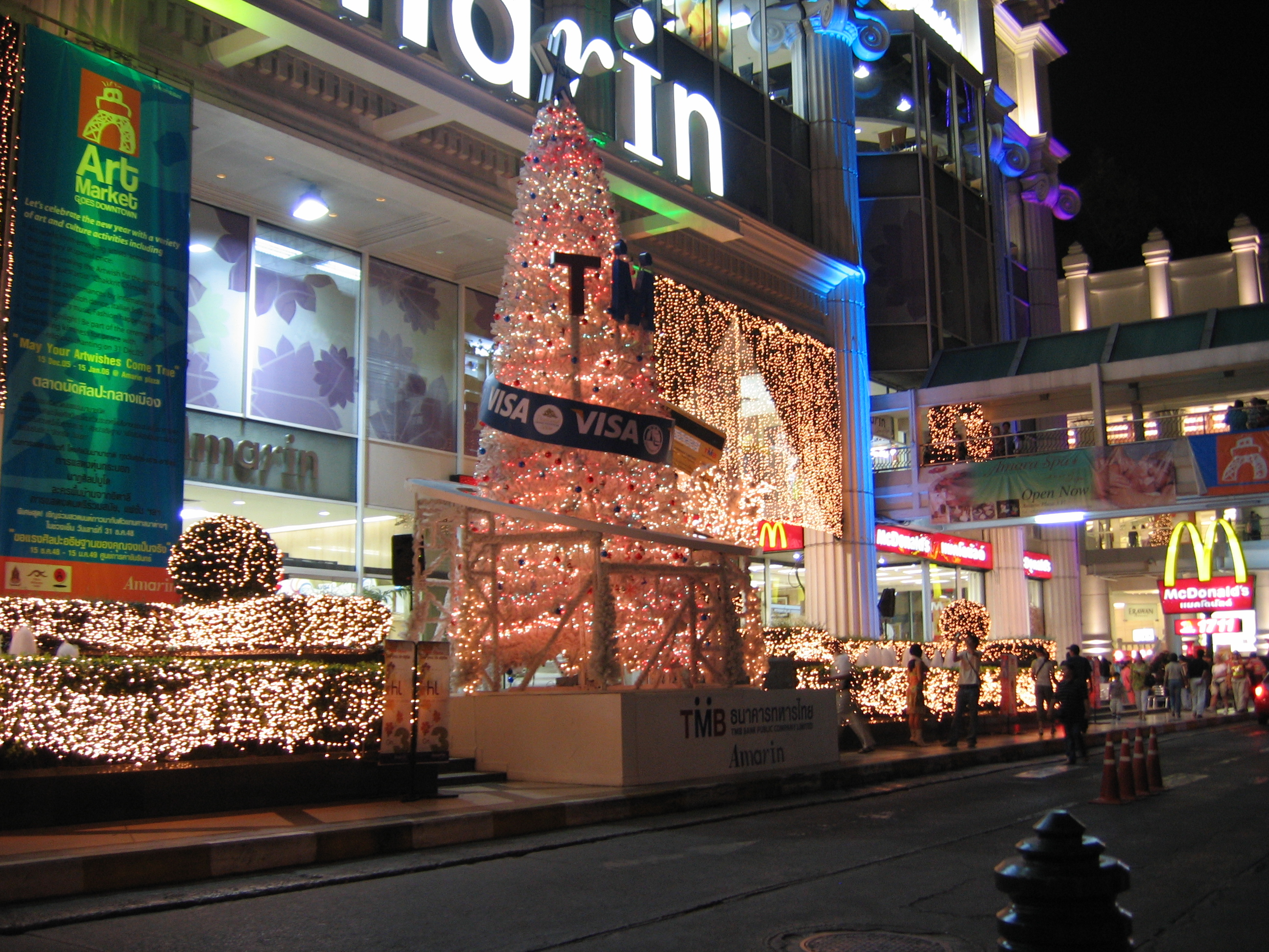 Chistmas and New Year lights in front of Amarin Plaza, Ratchaprasong Road, Pathum Wan, Bangkok.